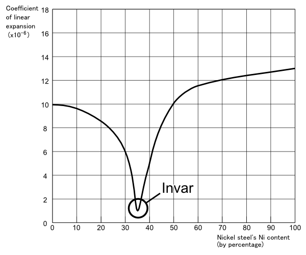 Invar Curve Graph